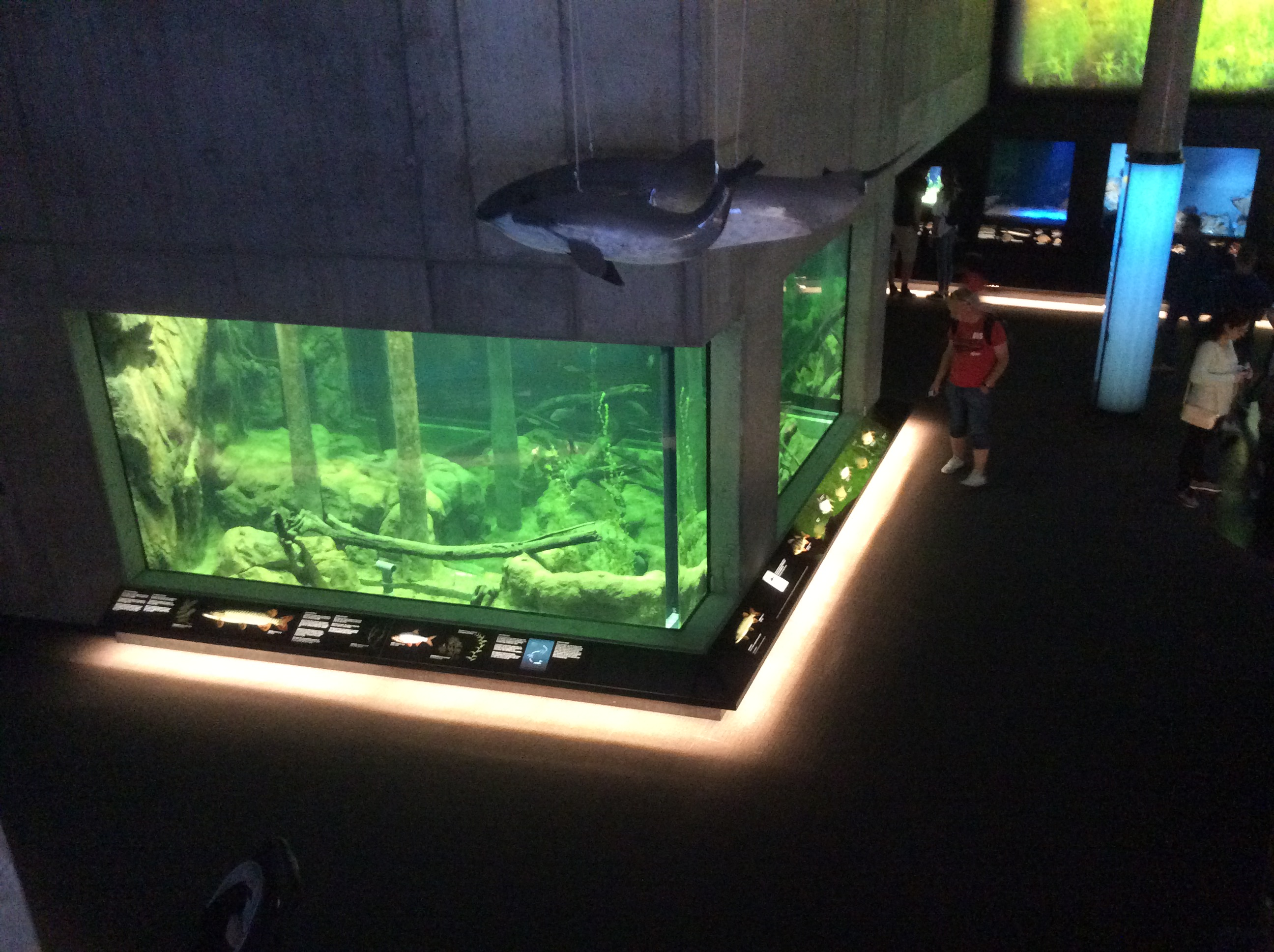 Baltic Sea Scientific Center, Stockholm